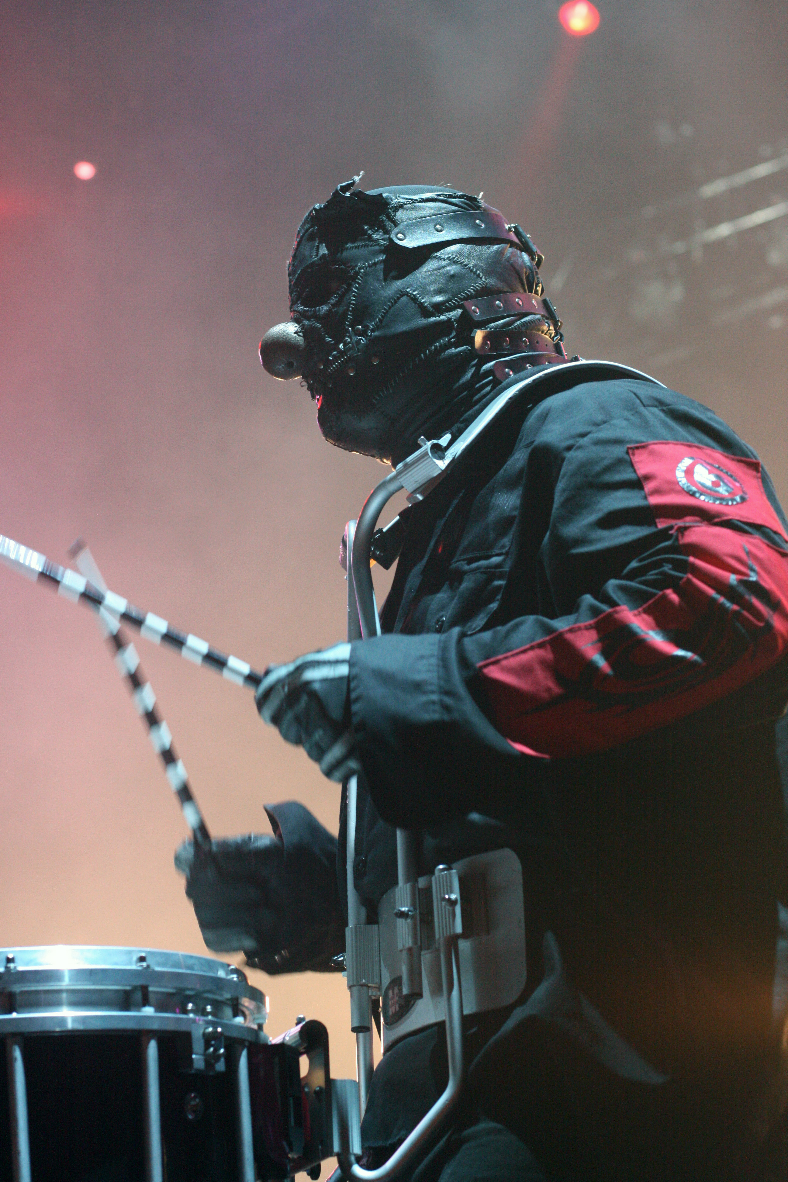 Shawn Crahan of Slipknot at the Nassau Coliseum